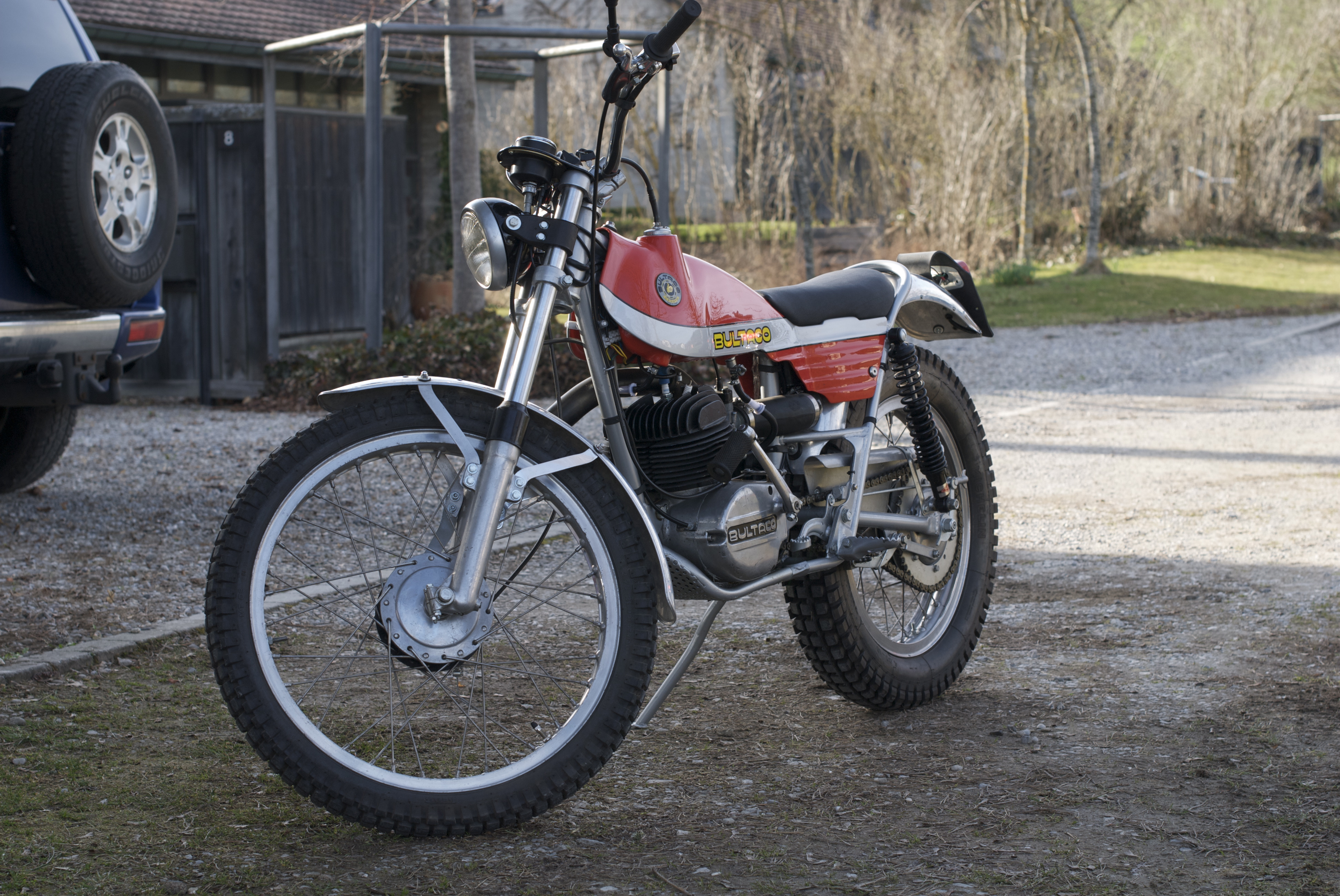 Sherpa T 250 cc, 1974. Malcolm Rathmell was European Champion with a motorbike like this.